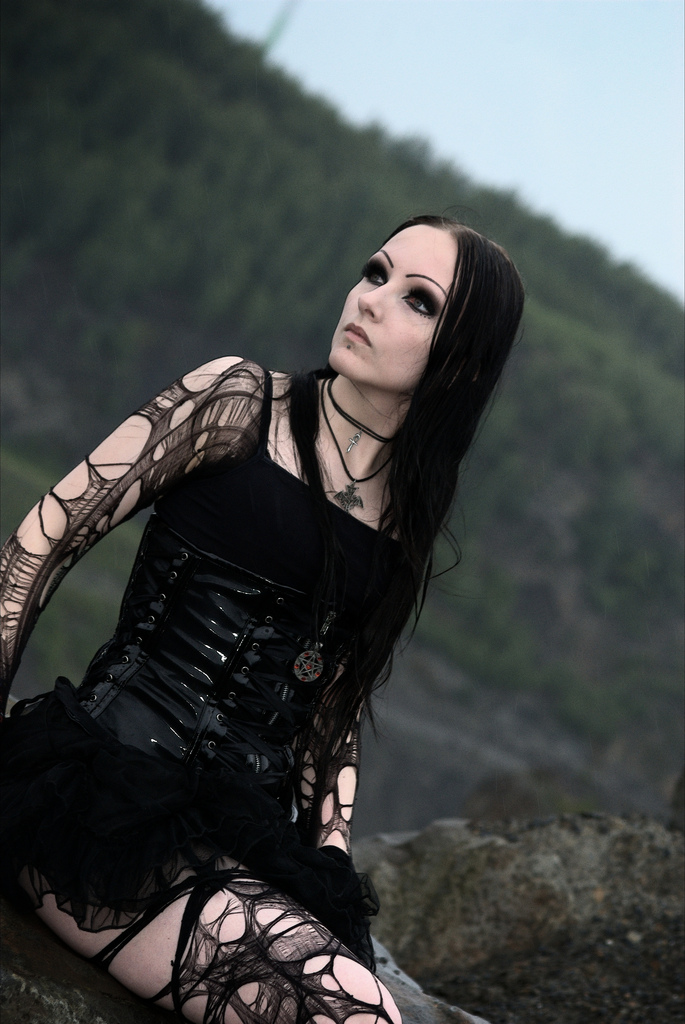 Gothic girl